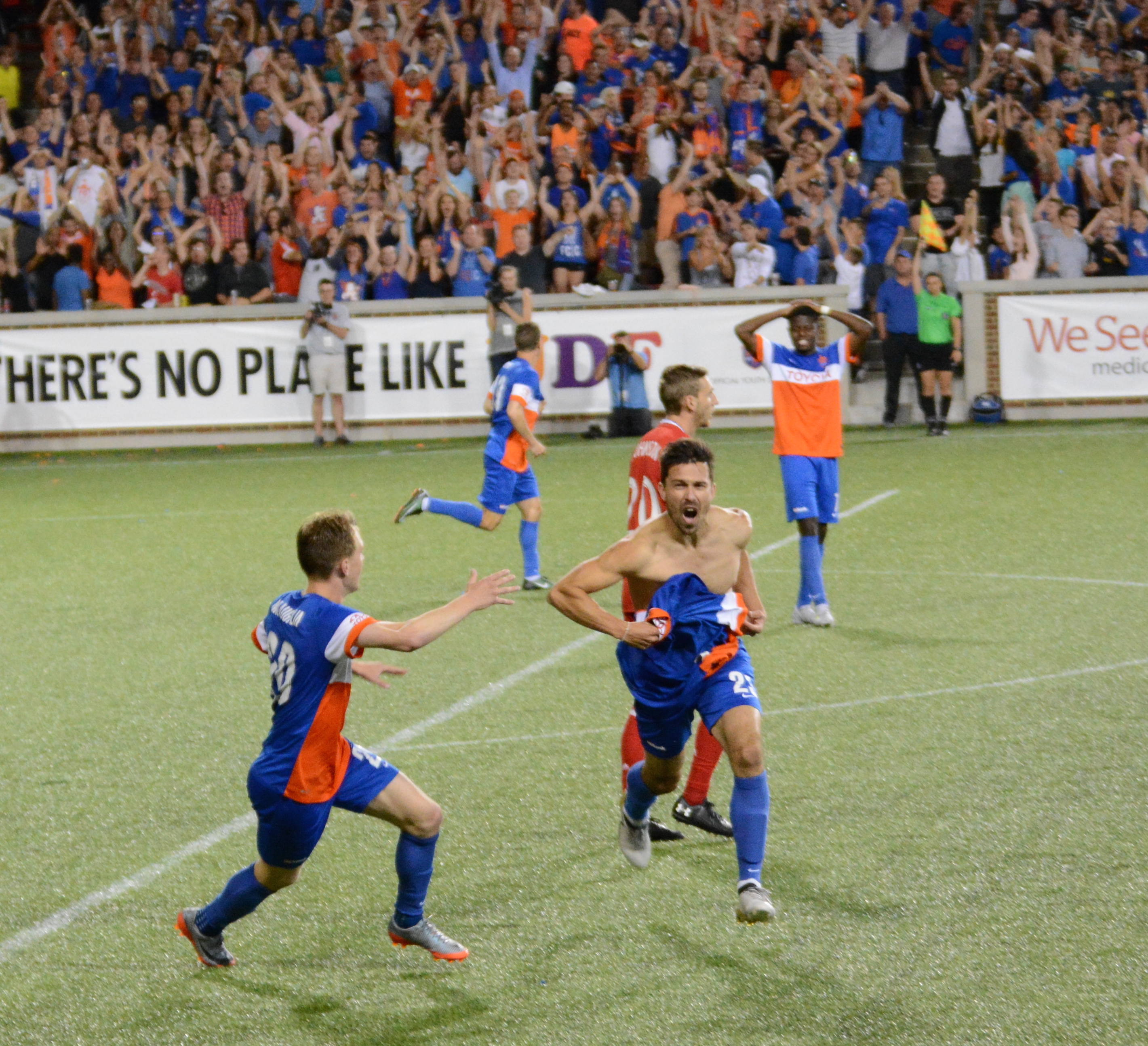 Andrew Wiedeman celebrates a goal he believes he's just scored by ripping off his jersey; however, behind him, the linesman is signaling offside. Taken at a 2017 Lamar Hunt U.S. Open Cup match between FC Cincinnati and Chicago Fire SC at Nippert Stadium in Cincinnati, Ohio on June 28, 2017.